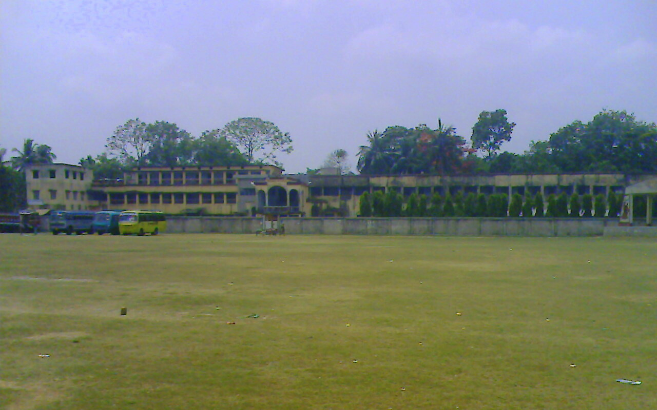 Bagula Shrikrishna College